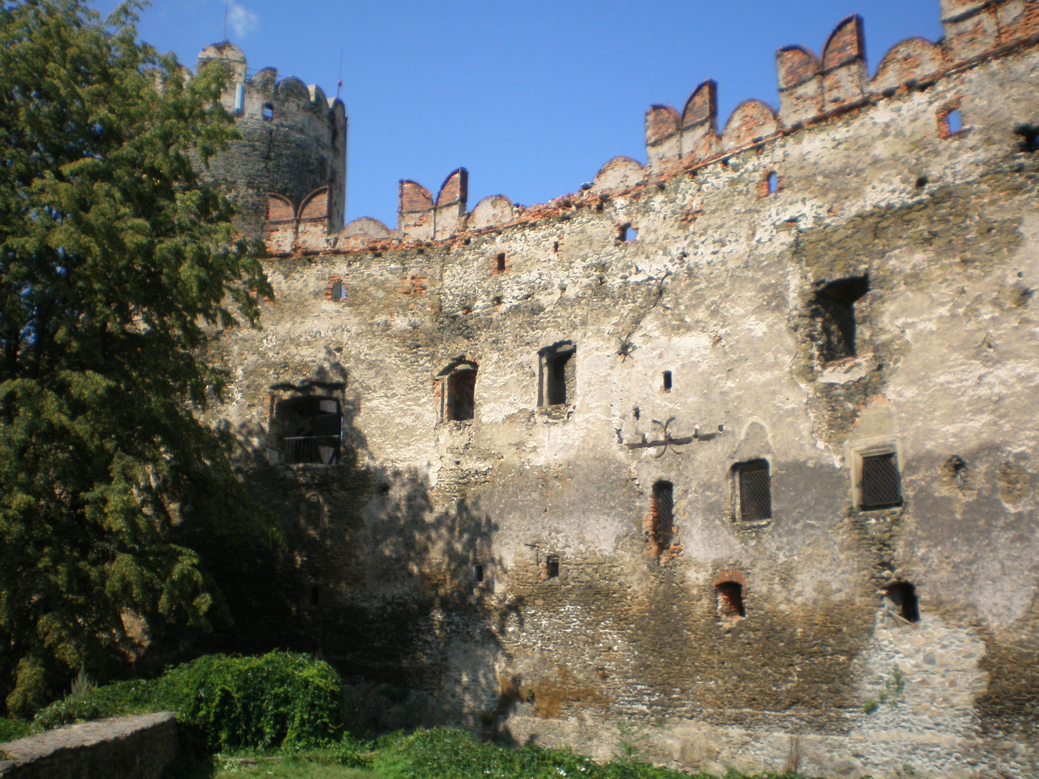 Bolków Castle